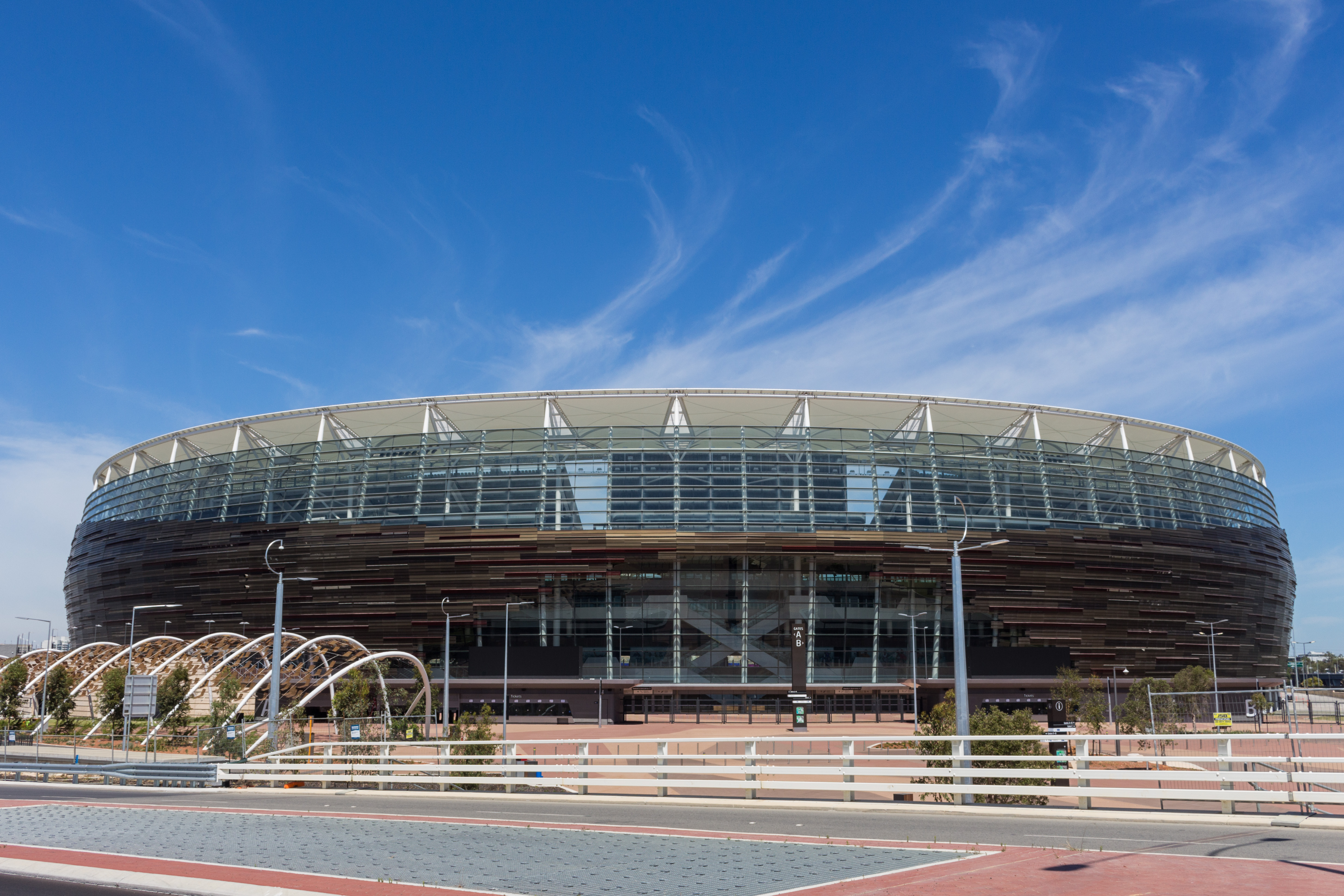 Perth Stadium in December 2017. Photographed from Victoria Park Drive.